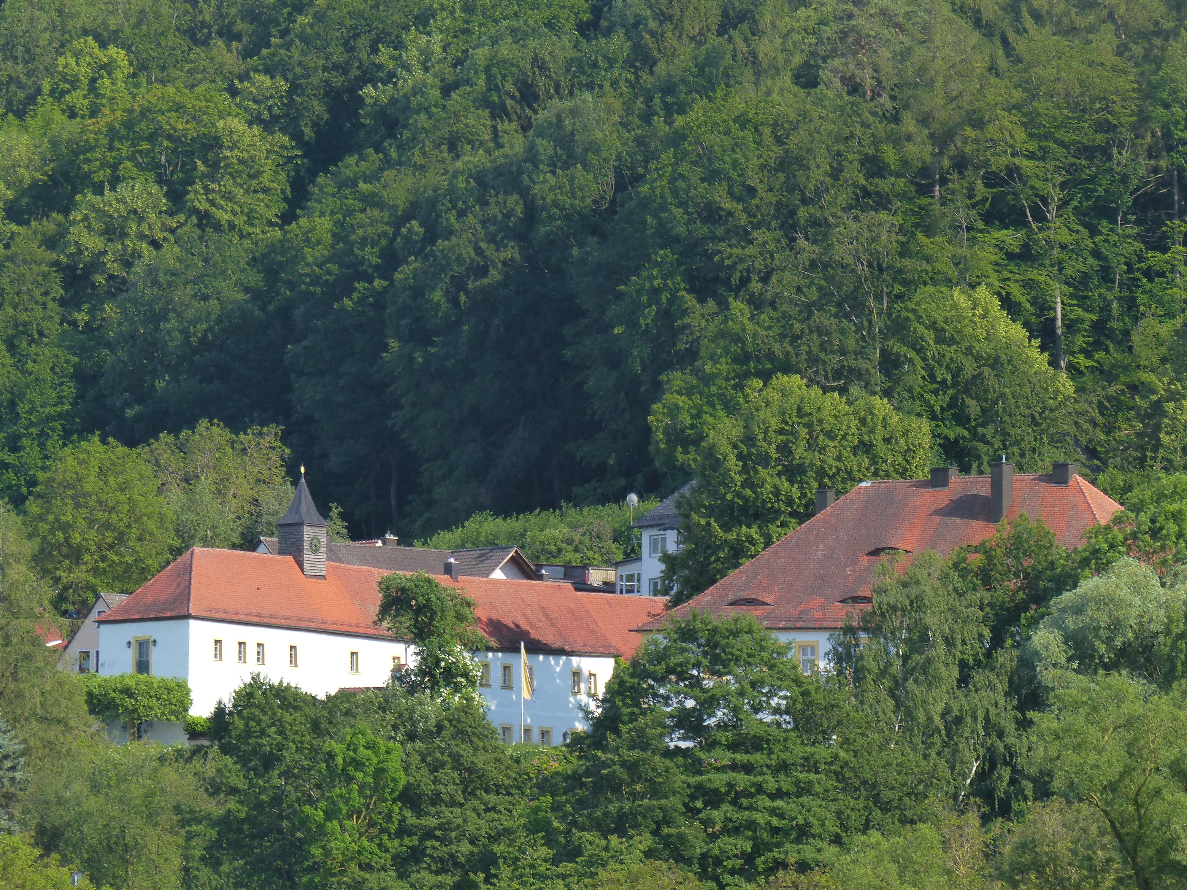 The entire complex of the château Adlitz in Adlitz, a village in the municipality of Ahorntal.